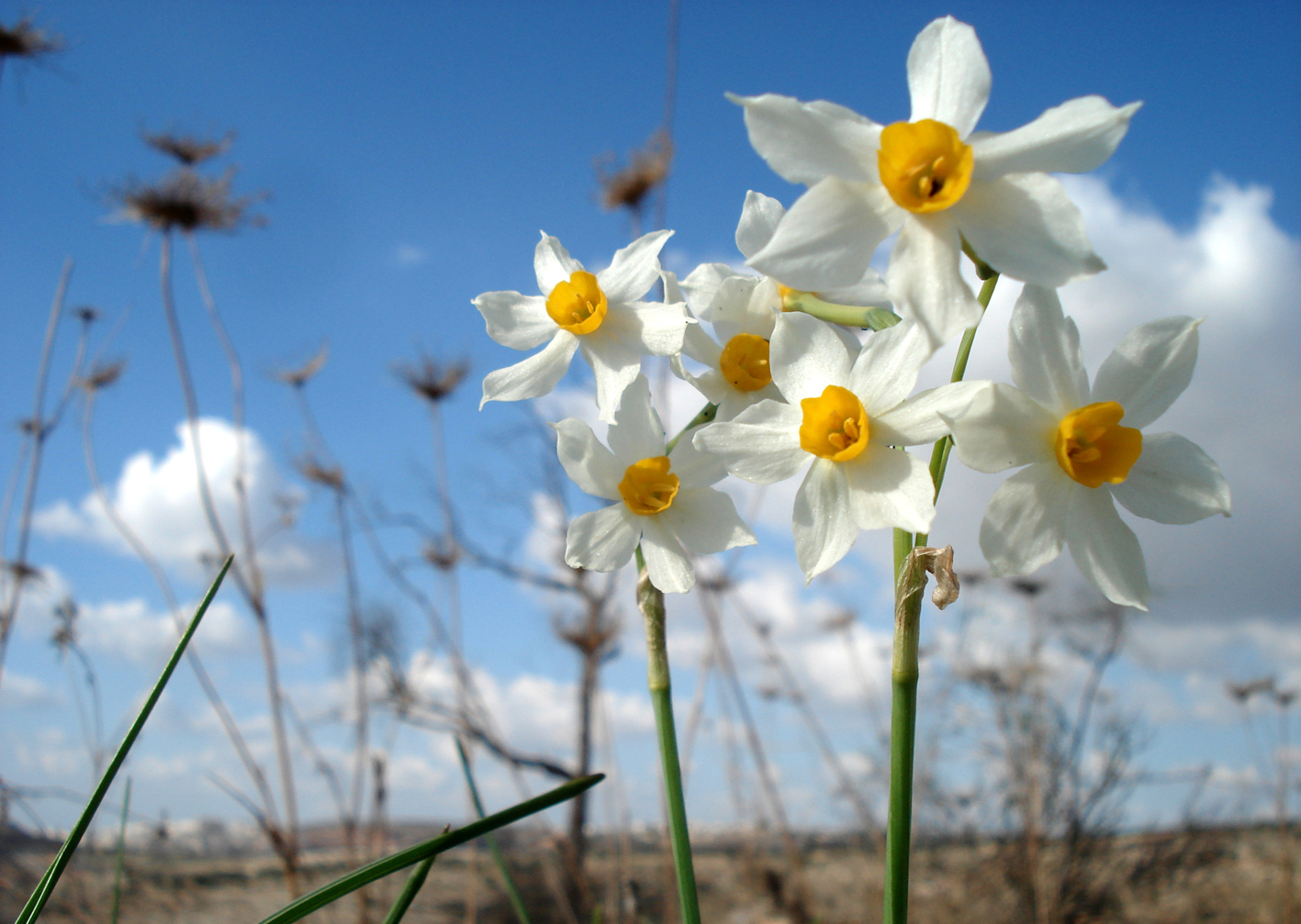 one of wild flowers of Bil'in , a village of Palestine